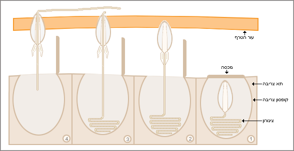 Cnidocyte-(stinging cell)